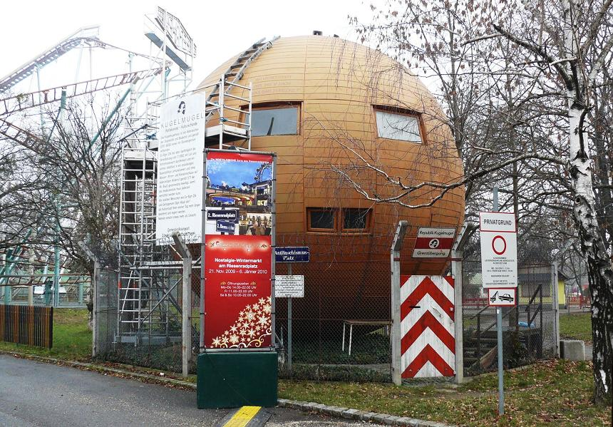 Republic of Kugelmugel, Prater, Vienna.